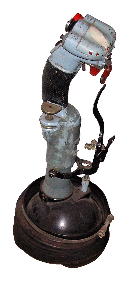 control column of a Sukhoi Su-22 Fitter.